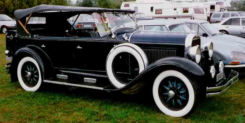 This picture depicts a 1930 Studebaker President series "FE" 7 passenger Tourer. It is an "L1" Model which designated it as having come from the factory with Wood spoke wheels and a rear mounted spare. Studebaker made approximately 60 President Tourers for each year , 1929 and 1930. It is unknown how many of the "L1" models (Wood Spoke Wheels) and how many of the "L2" models (Dual sidemount Wire Wheel) were produced out of those 60 made. For the 1929 Production year, of the 60 President "FE" Tourers built only 3 remain in the United States, Car #19 and #35 (L1 Models) and car #57, the only known 1929 "L2" model. Car #21, which is an "L1" model was sold on Ebay in 2009 and was shipped to the Ukraine. These are the only 1929 "FE" Tourers known to exist. There apparently five to six 1930 Tourers like the one depicted in this picture still in existence.